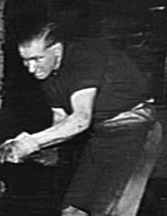 Blacksmith Merv Brooks working with a large pneumatic forging machine.